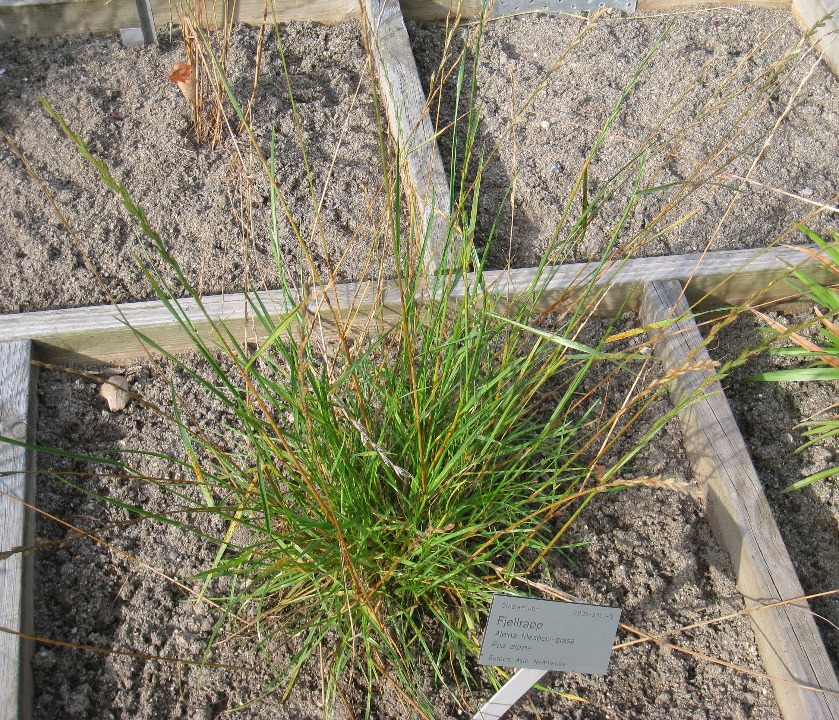 Poa alpina - Oslo botanical garden, Oslo, Norway.